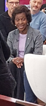 Yvette Bonny photographed in Montréal , Québec, Canada at the CBC's Montréal building during a live airing of Entrée principale.